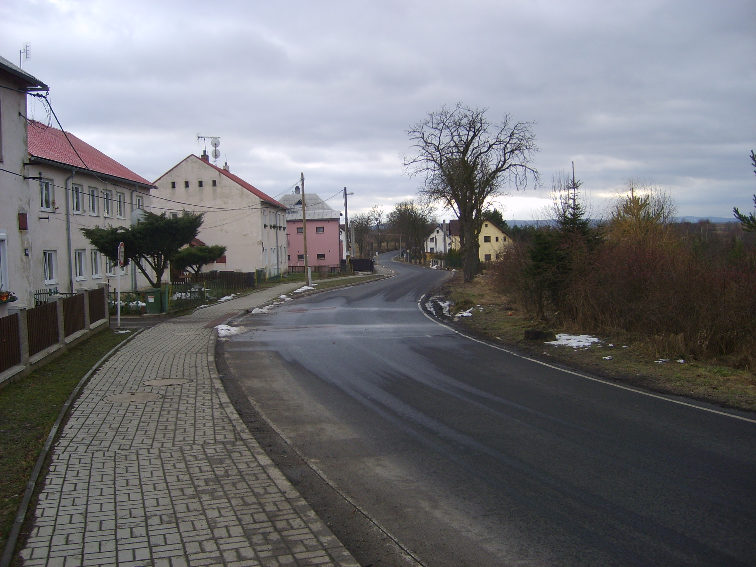 Road from Karlovy Vary to Hroznětín in the Czech Republic, passing through Podlesí village.